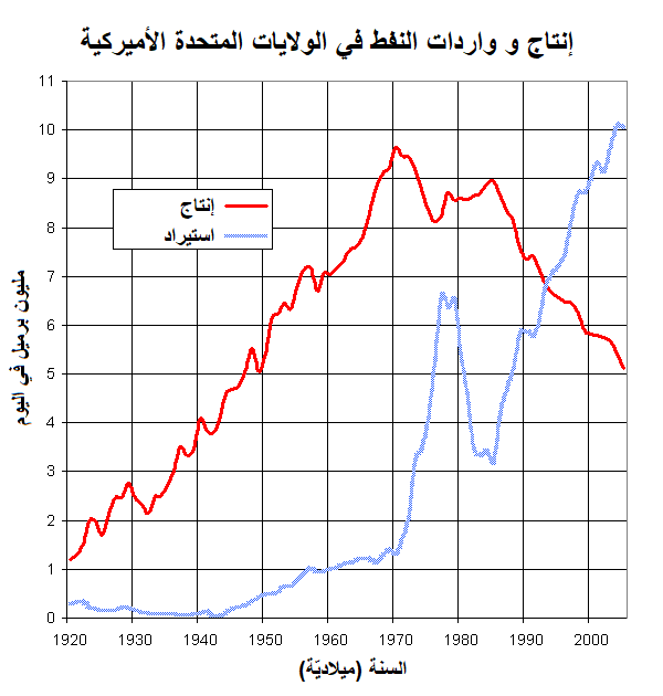 The United States petroleum production and imports, 1920 to 2005; data from the Energy Information Administration of the United States Department of Energy